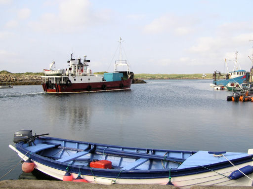 Ferry leaving Burtonport. The MV RHUM heading for Arranmore Island